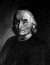 Francesco Antonio Bonporti Looks like from a 1700s-1800s drawing.